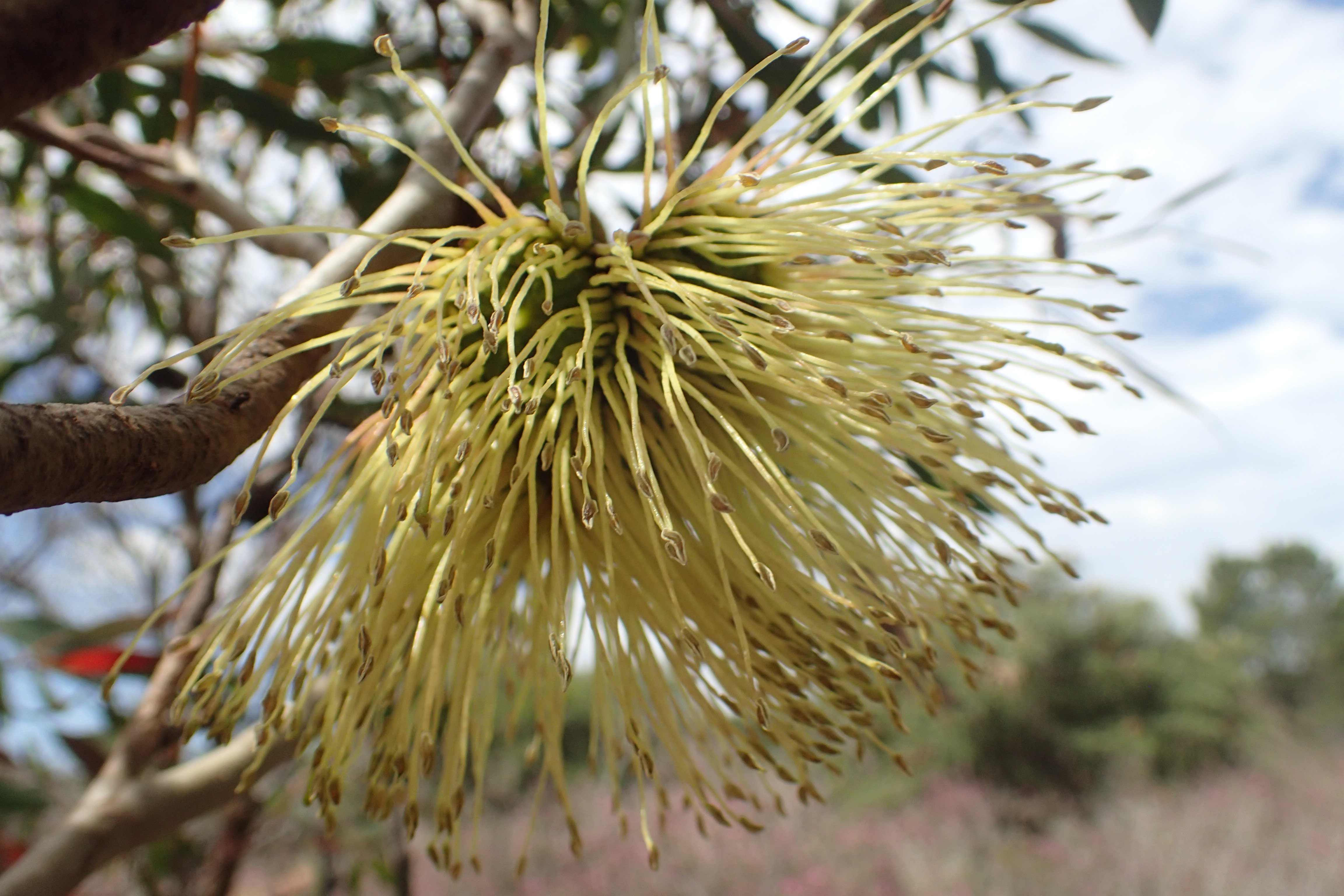 Flowers of Eucalyptus burdettiana in Helms Arboretum, North of Esperance, W.A.